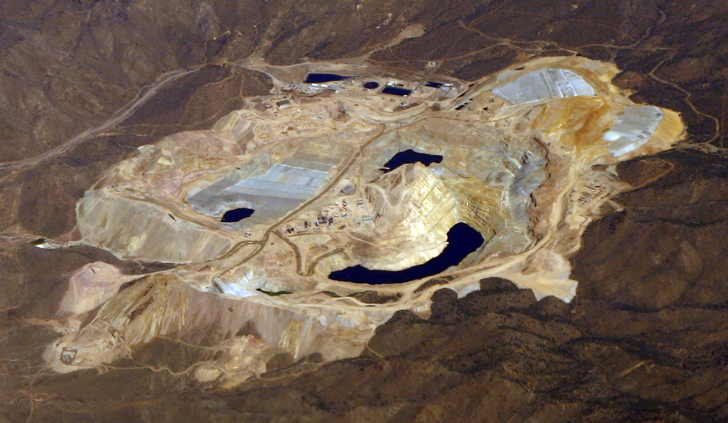 The mine at Mineral Park, Arizona. Once home to a settlement of 700 people, it's now a large mine above Bismark Canyon and Spring Creek. Ithaca Peak as been removed, leaving this mine with its happy-face look.